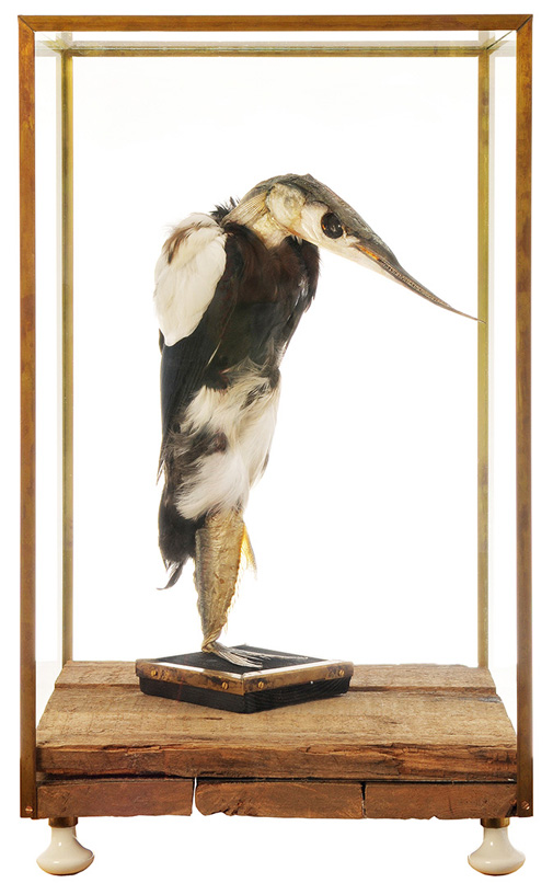 Taxidermisk skulptur, taxidermic sculpture